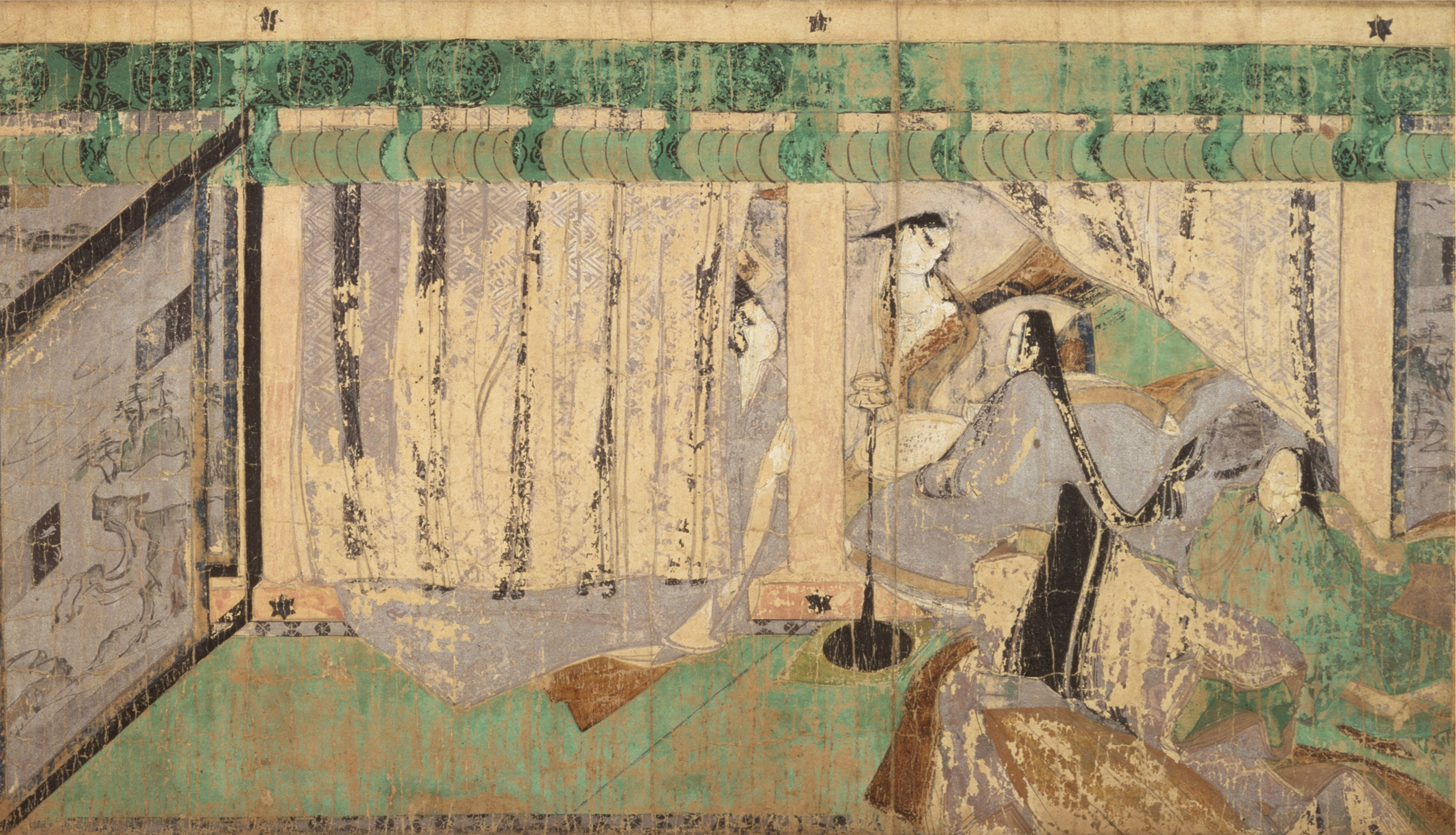 A scene of the Chapter "YOKOBUE "(Flute) of Illustrated handscroll of Tale of Genji (written by MURASAKI SHIKIBU(11th cent.). The handscroll was made in about ACE1130 and stored in TOKUGAWA Museum, Japan. The handscroll were separated to each sections and mounted to frame for conservation.